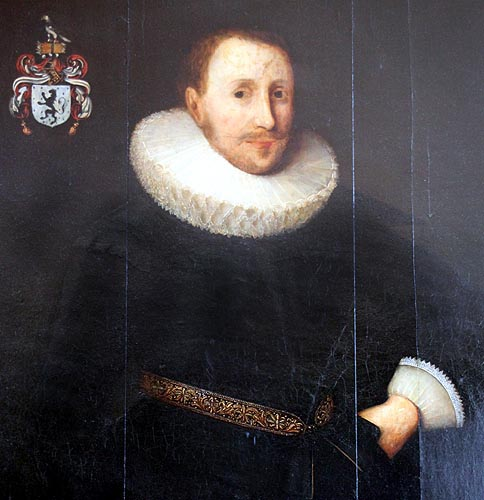 John Kendrick (1573-1624) Cloth Merchant & Philanthropist, founder of Kendrick School, Reading, Berkshire. Collection of Kendrick School. The mural monument to his son William Kendrick (d.1653) survives in Reading Minster. See . Arms of Kendrick: Ermine, a lion rampant sable.